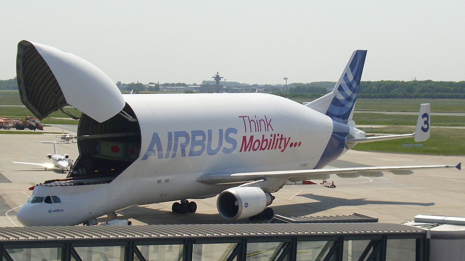 An Airbus A300-600ST with registration F-GSTC at the airport of Bremen